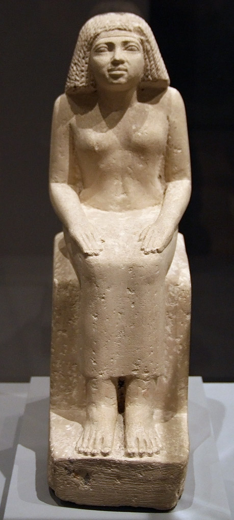 Statue of "King's daughter Nefret-Jabet", daughter of Khufu, from a tomb in Giza, 4th Dynasty, ca. 2500 BC (Staatliche Sammlung für Ägyptische Kunst in Munich).